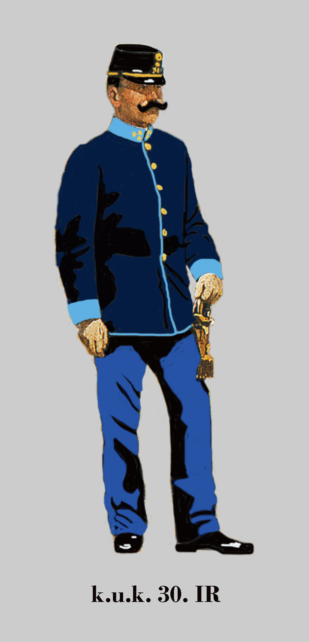 Captain of the Austria-Hungarian (k.u.k.). 30th german Infantry Regiment in Service dress 1914